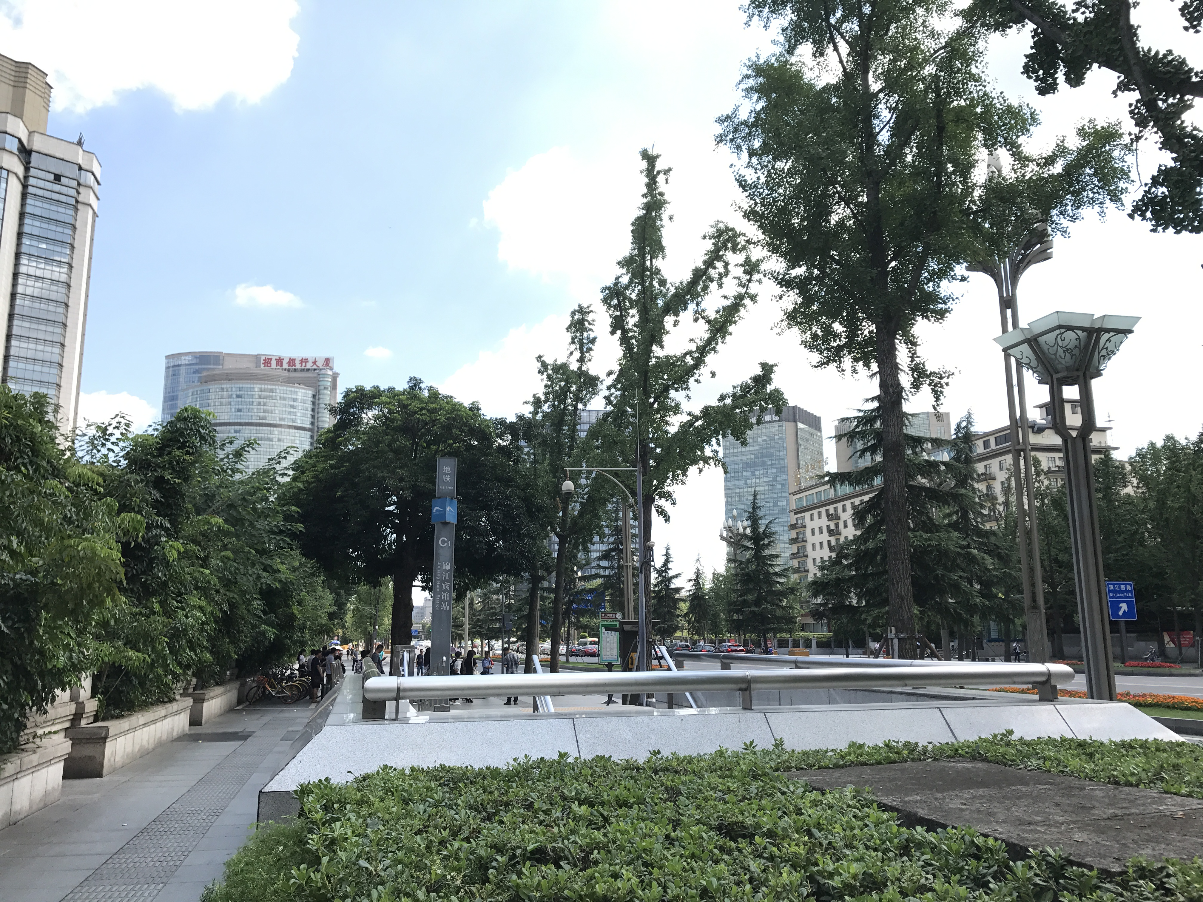 Entrance C1 of Jinjiang Hotel Station,Chengdu Metro